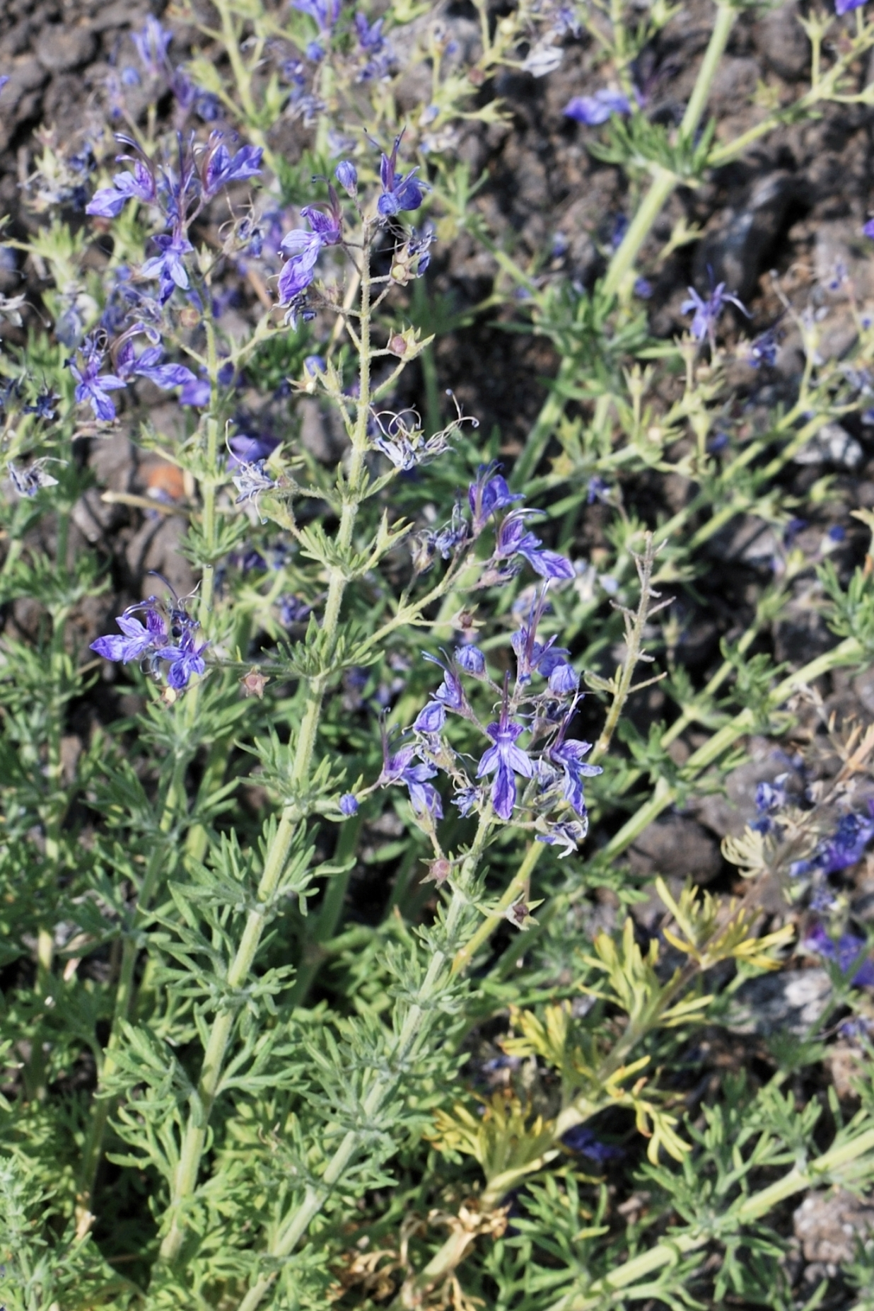 Teucrium orientale L., Mount Hermon, Israel/Syria, July 9, 2011.